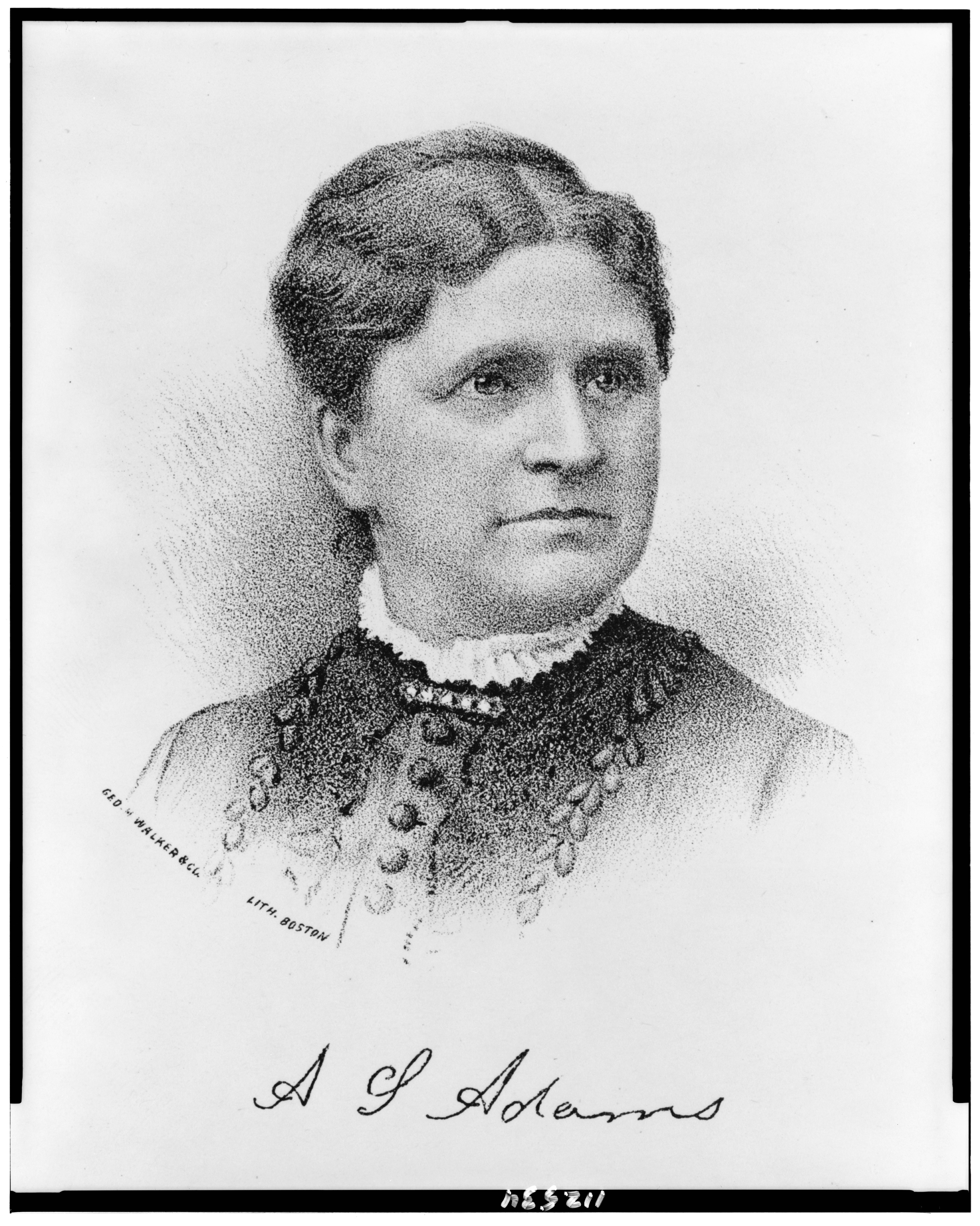 A.S. Adams. Bust portrait of Abigail Smith Adams, facing slightly right. Lithograph.